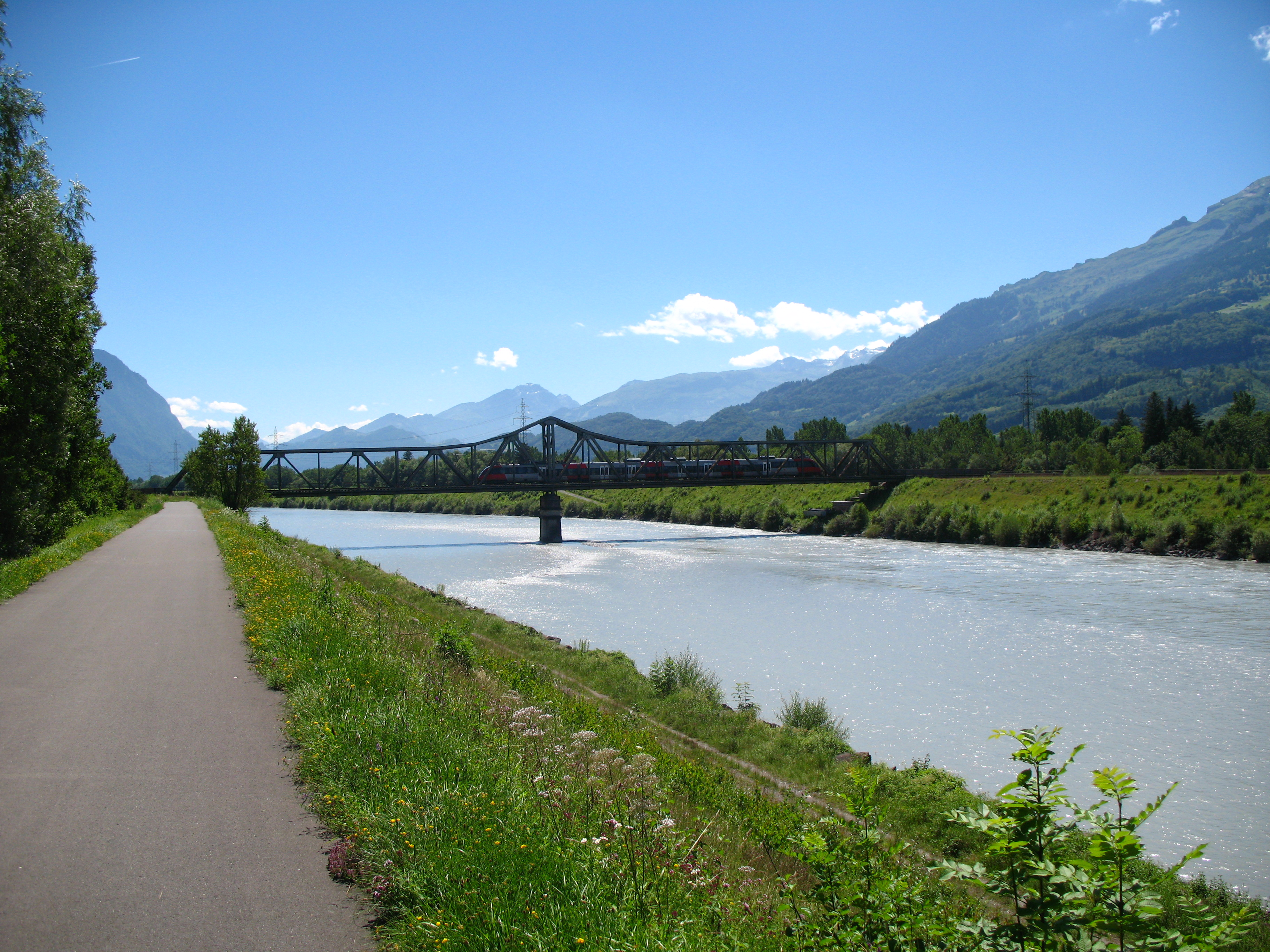 An Austrian EMU 4024 (Bombardier Talent) of the ÖBB is crossing the Rhine and the border of Liechtenstein and Switzerland, seen from the Rhine Causeway at Schaan-Vaduz